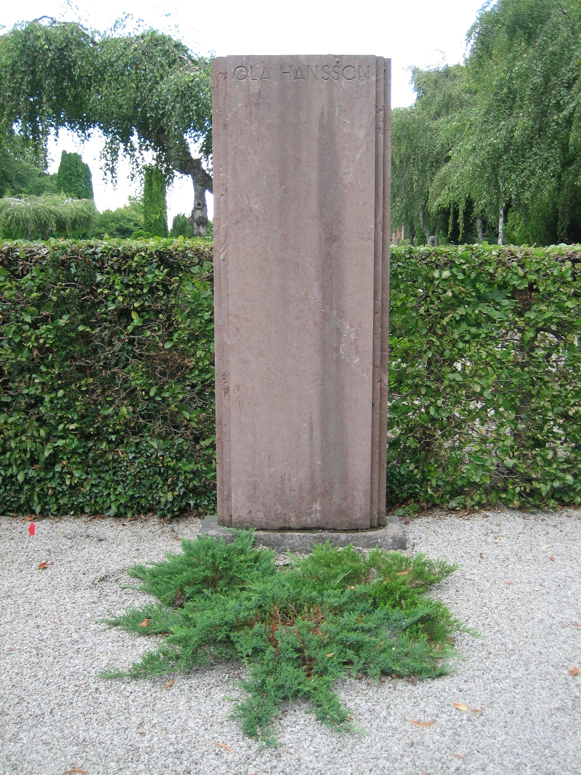 The grave of Ola Hansson (1860-1925), swedisg writer, poet and critic. Photo taken at Norra kyrkogården in Lund, Sweden 080824 by the uploader.